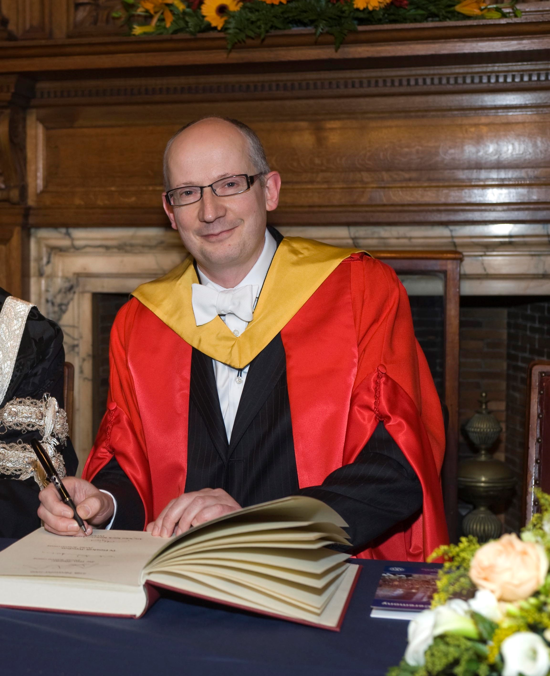 John Leighton receiving his Honorary Doctorate in 2009